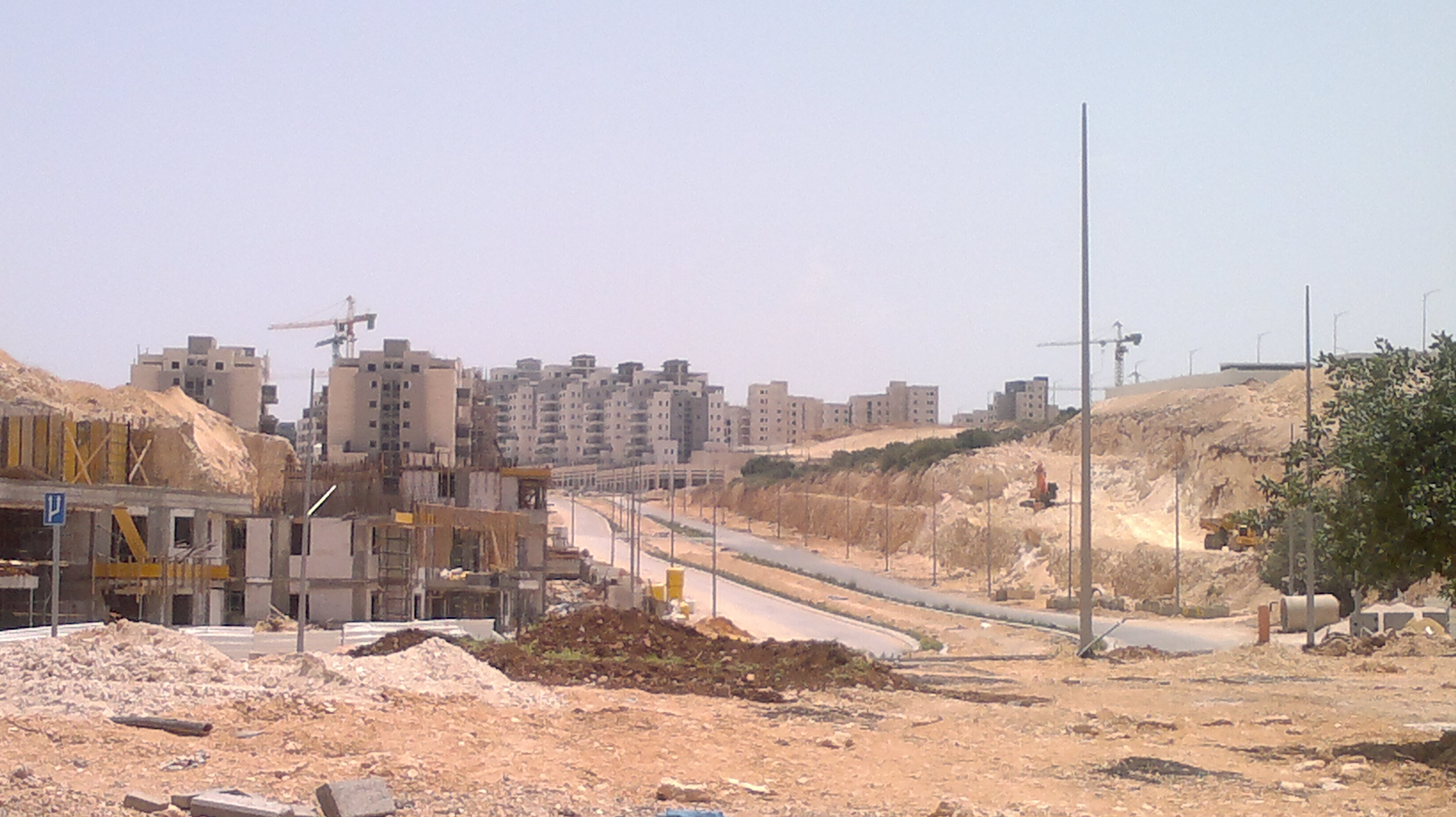 Construction of Harish as of April 2016